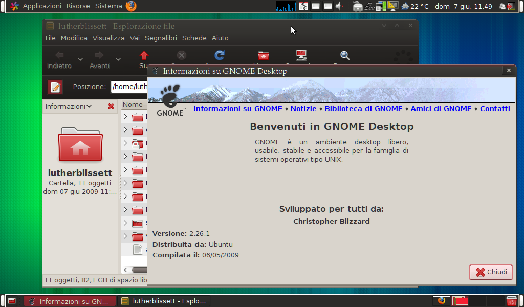 Screen capture of Ubuntu Linux 9.04 (Jaunty Jackalope), desktop environment GNOME 2.26, on Asus EeePC 1000H.